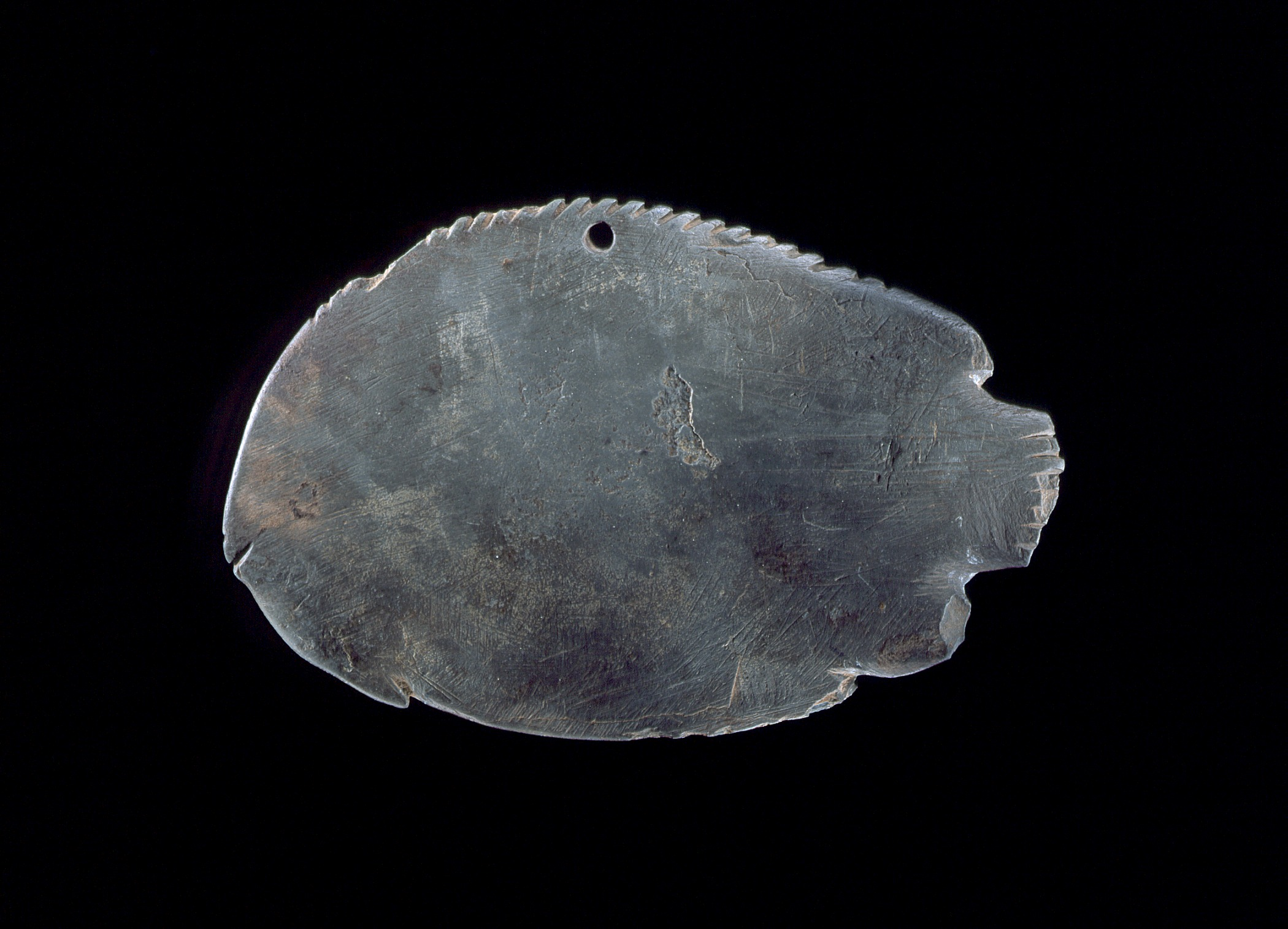 Egypt, Naqada II Period, 3500-3050 B.C. Tools and Equipment; palettes Schist 3 x 4 5/8 in. (7.6 x 11.7 cm) Gift of Robert Miller and Marilyn Miller Deluca (M.80.199.81) Egyptian Art